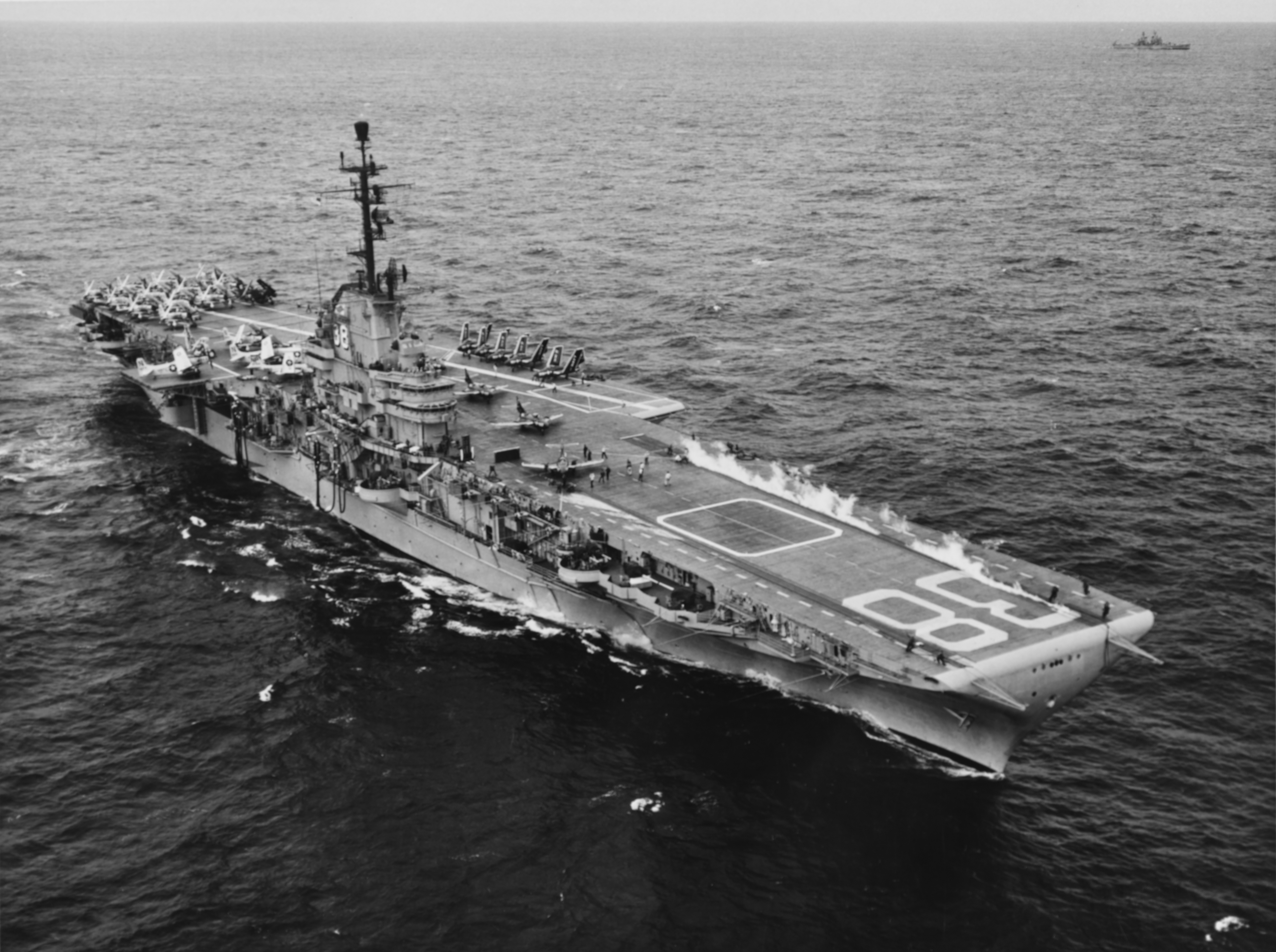 The U.S. Navy aircraft carrier USS Shangri-La (CVA-38) at sea, launching Grumman F9F-8 Cougars of Fighter Squadron 53 (VF-53) "Black Knights" on 10 January 1956. Note the steam rising from her port catapult. Shangri-La, with assigned Air Task Group 3 (ATG-3), was deployed to the Western Pacific from 5 January to 23 June 1956.